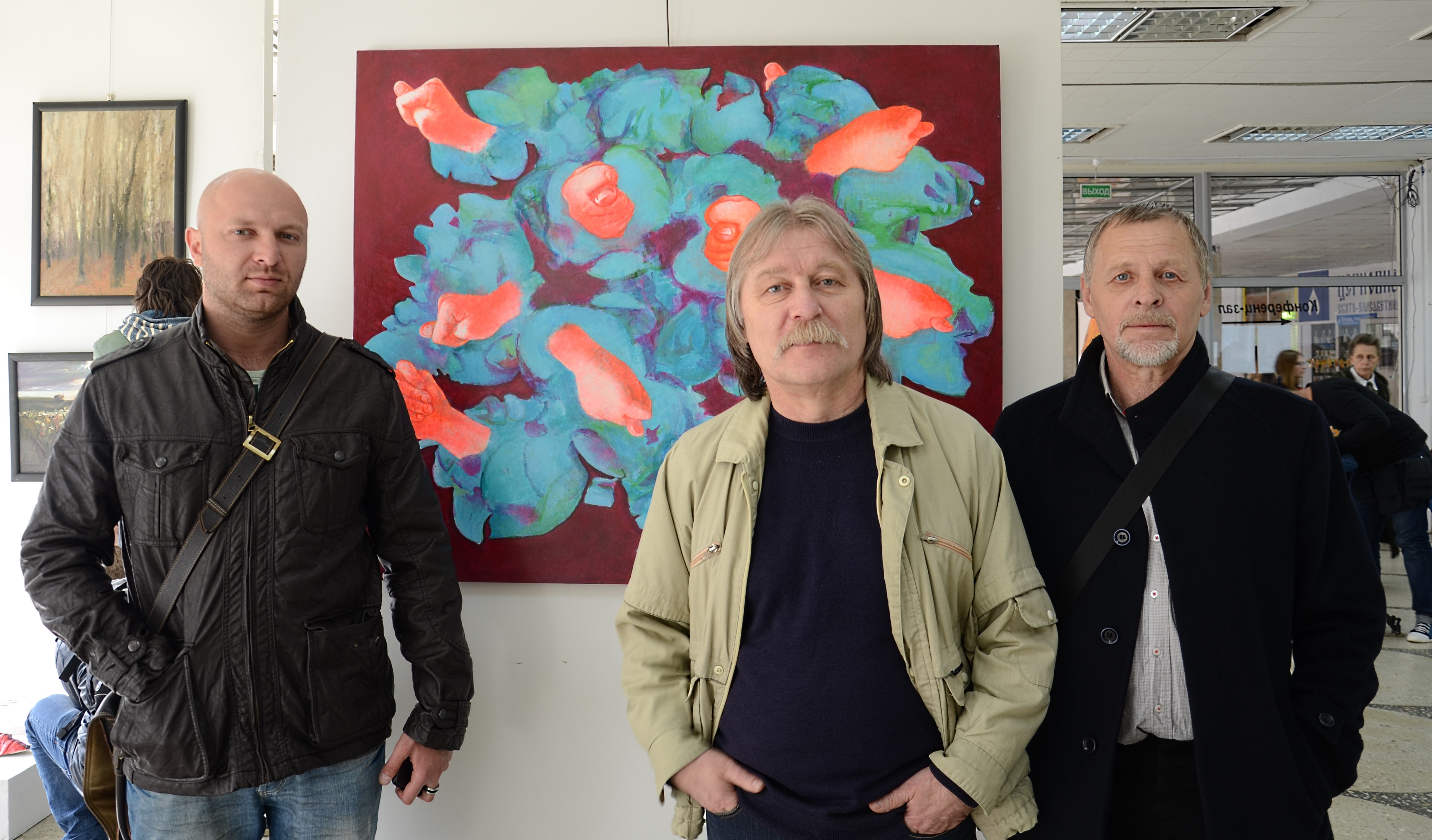 Opening of the exhibition Youth Belarusian Union of Artists. Palace of Arts, May 13, 2014. Artists Oleg Kostyuchenko, Gregory Sitnitsa, Vasily Kostyuchenko.